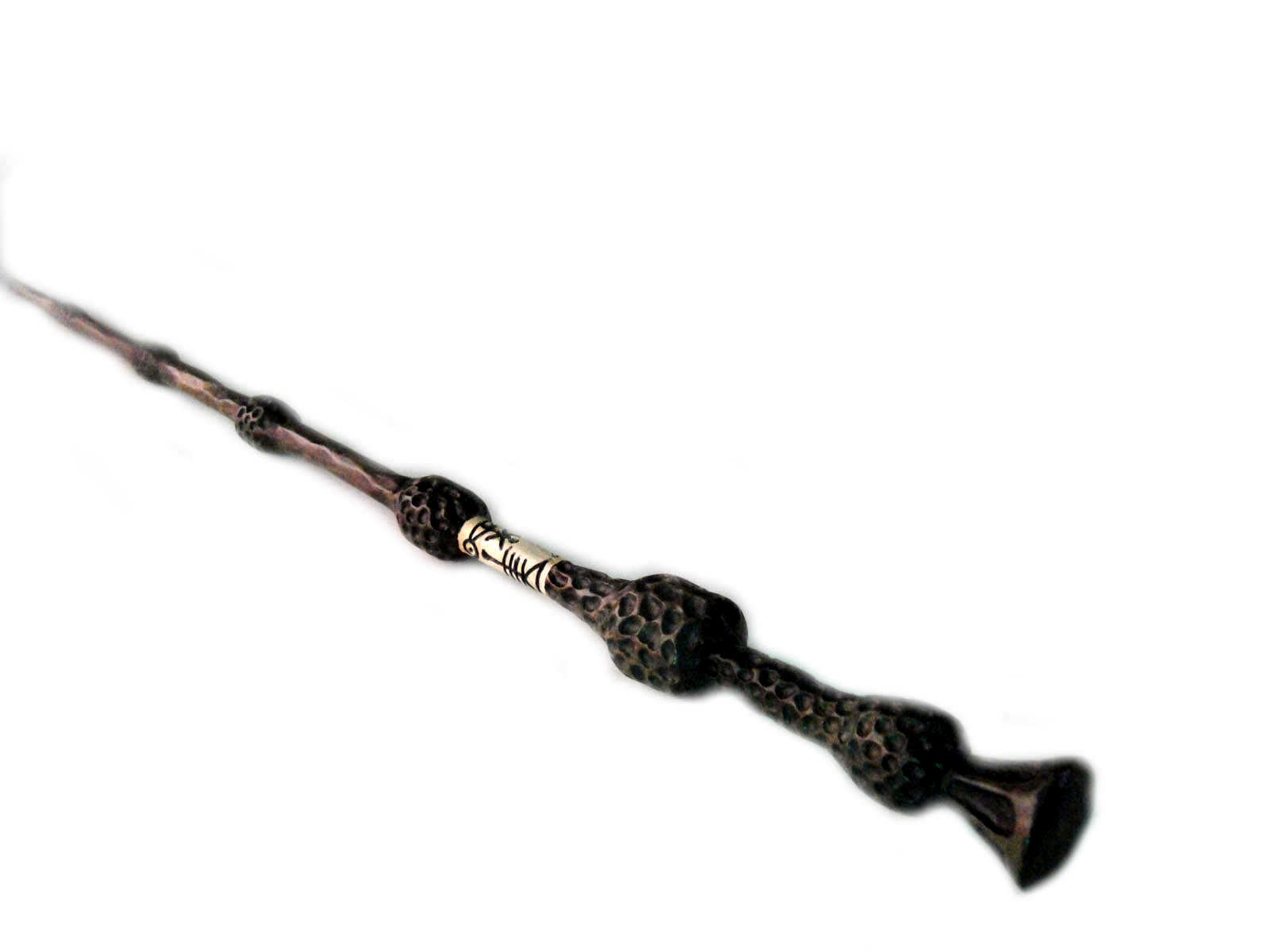 Reproduction of the Elder Wand in Harry Potter Warner Bros. films